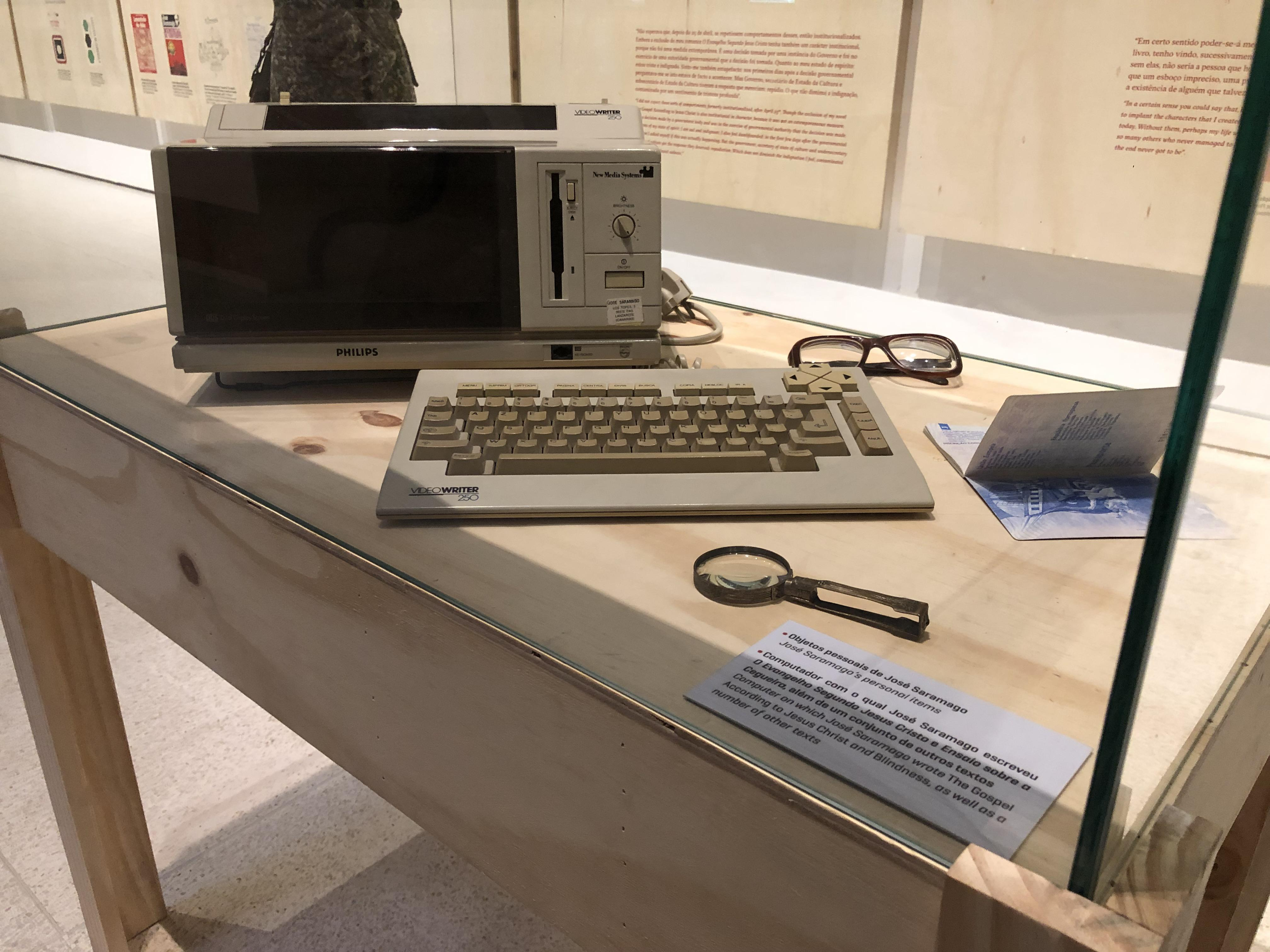 Collection of personal objects of Portuguese writer José Saramago, including a Philips VideoWriter 250